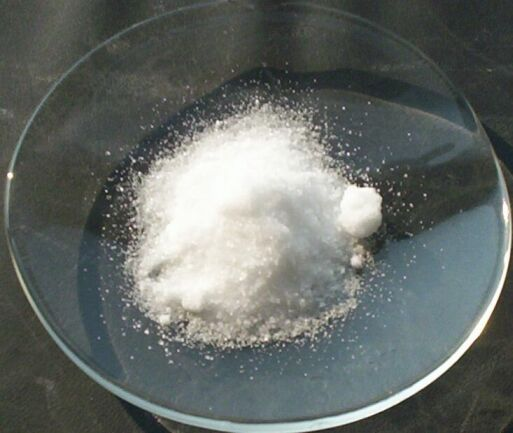 A sample of Potassium nitrate. Picture taken by User:Walkerma in June 2005.